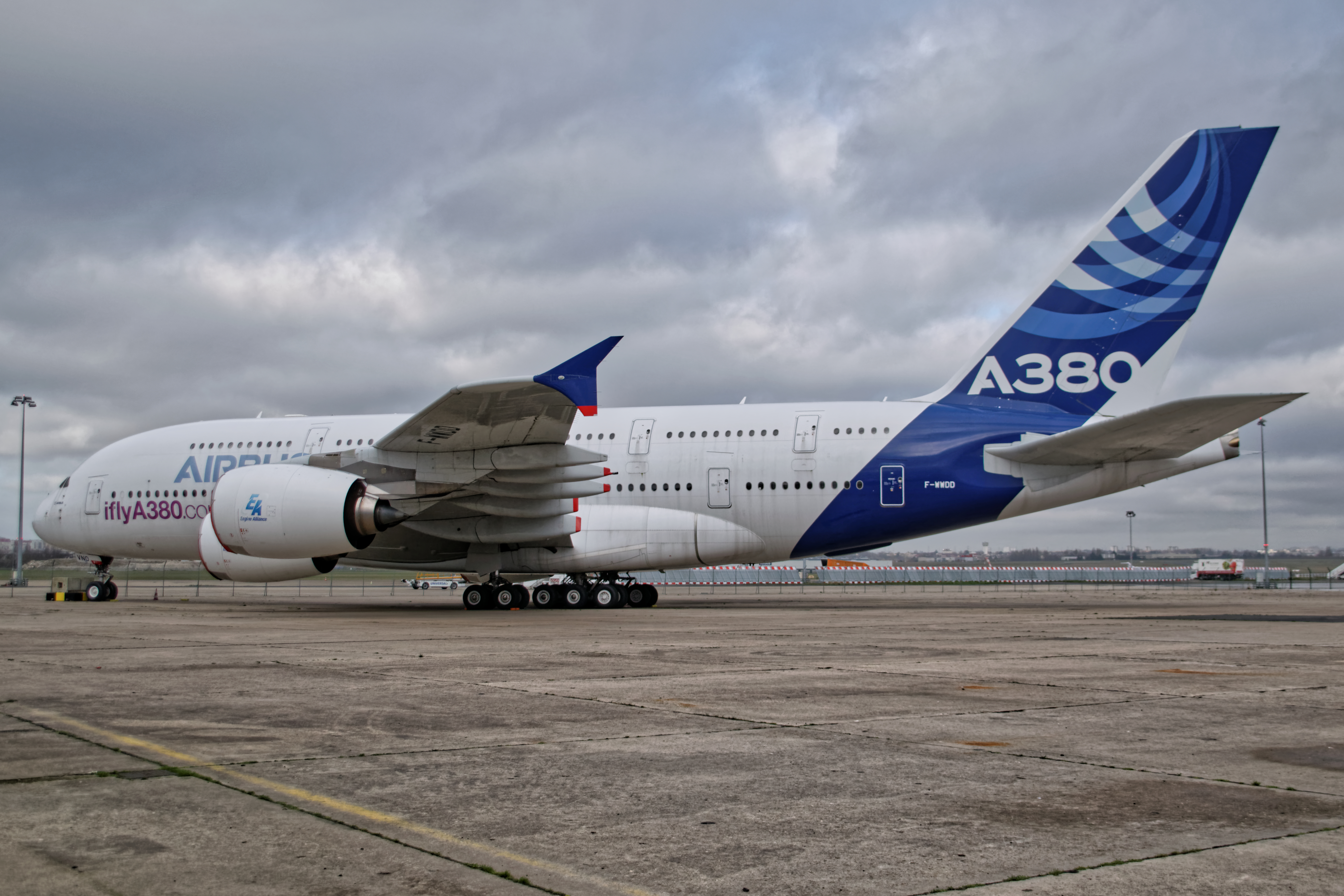 F-WWDD Airbus A380